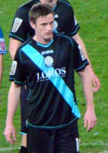 30/03/10 Cardiff V Leicester, Championship, Cardiff City Stadium, Cardiff, Wales